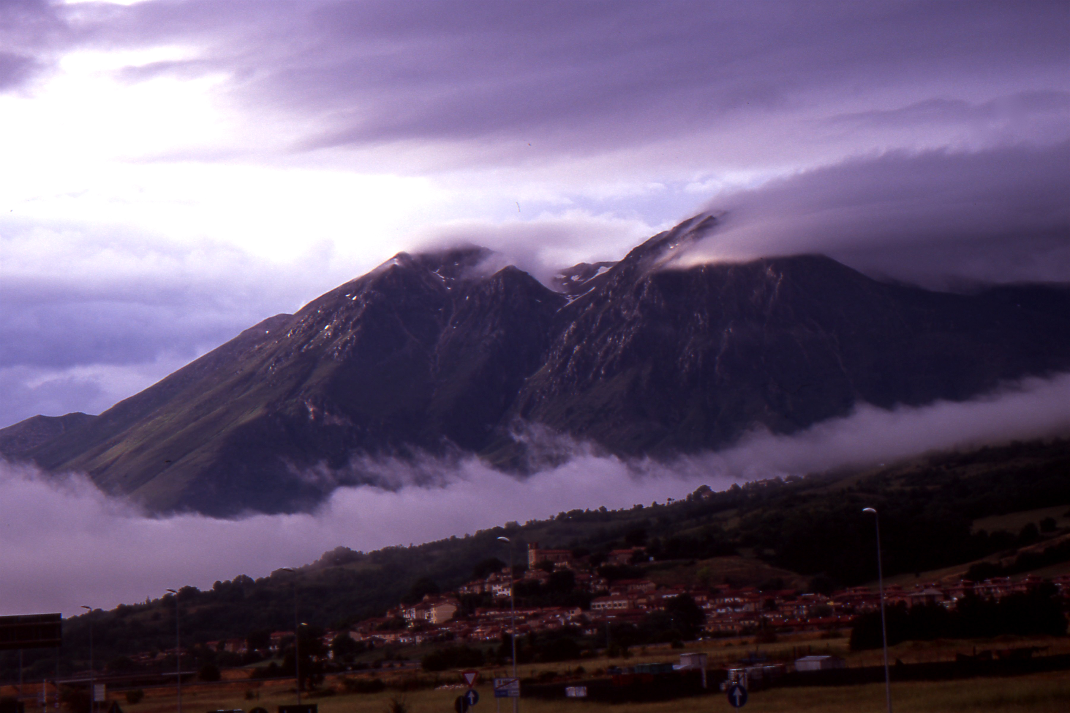 View of Mount Velino and Antrosano, Avezzano, Abruzzo, Italy